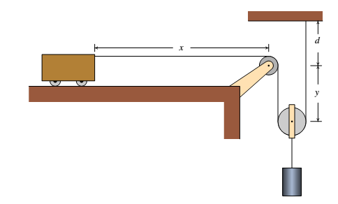 Sistema com dois movimentos dependentes e um único grau de liberdade.